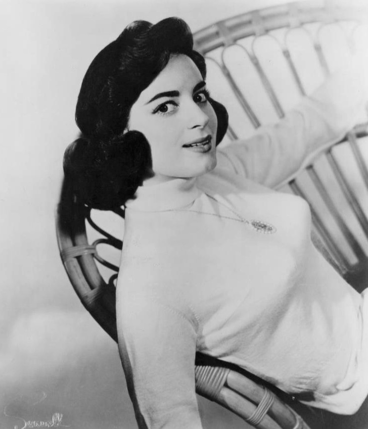 Publicity photo of actress and singer Carla Alberghetti, the sister of Anna Maria Alberghetti.